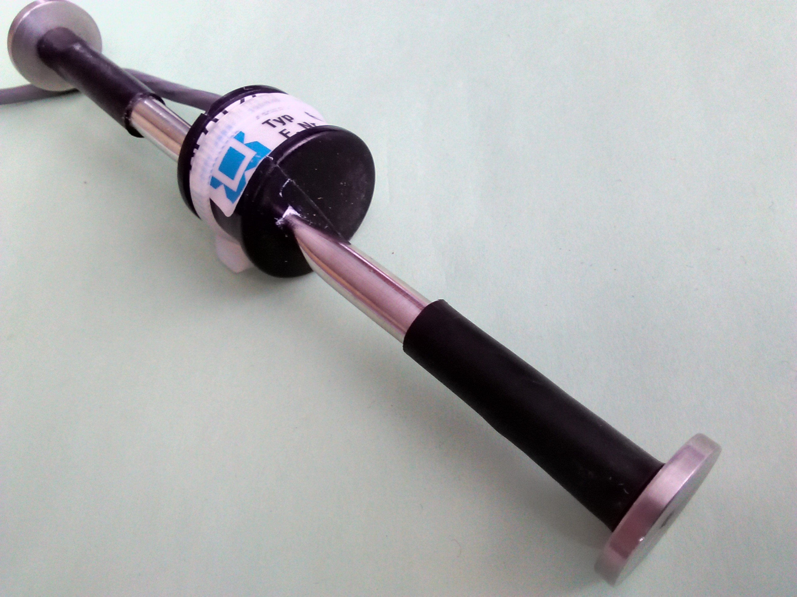 Vibrating wire sensor (Glötzl device).